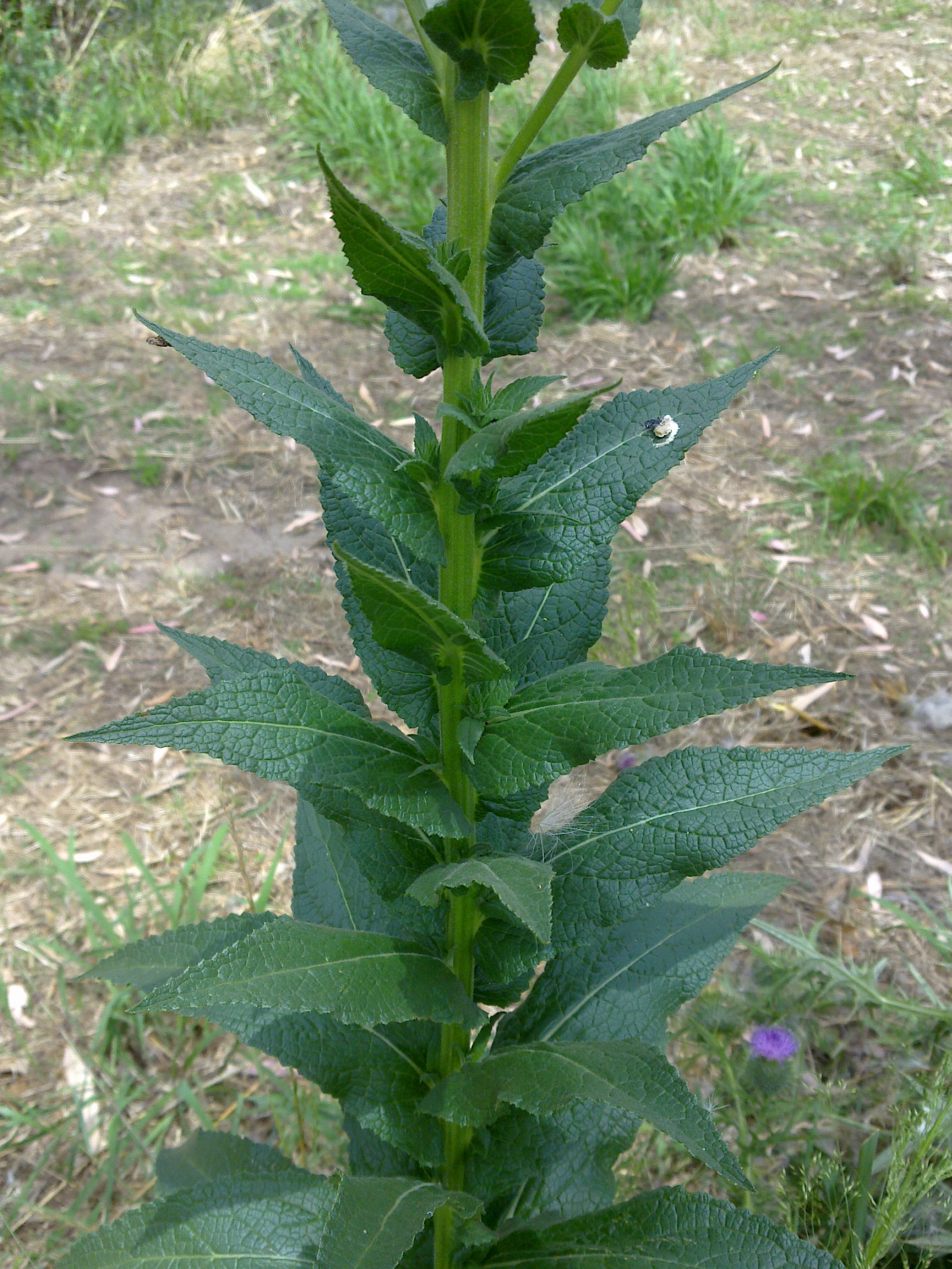 Twiggy Mullein (Verbascum virgatum) growing along the banks of the Murrumbidgee River in Wagga Wagga, New South Wales, Australia.